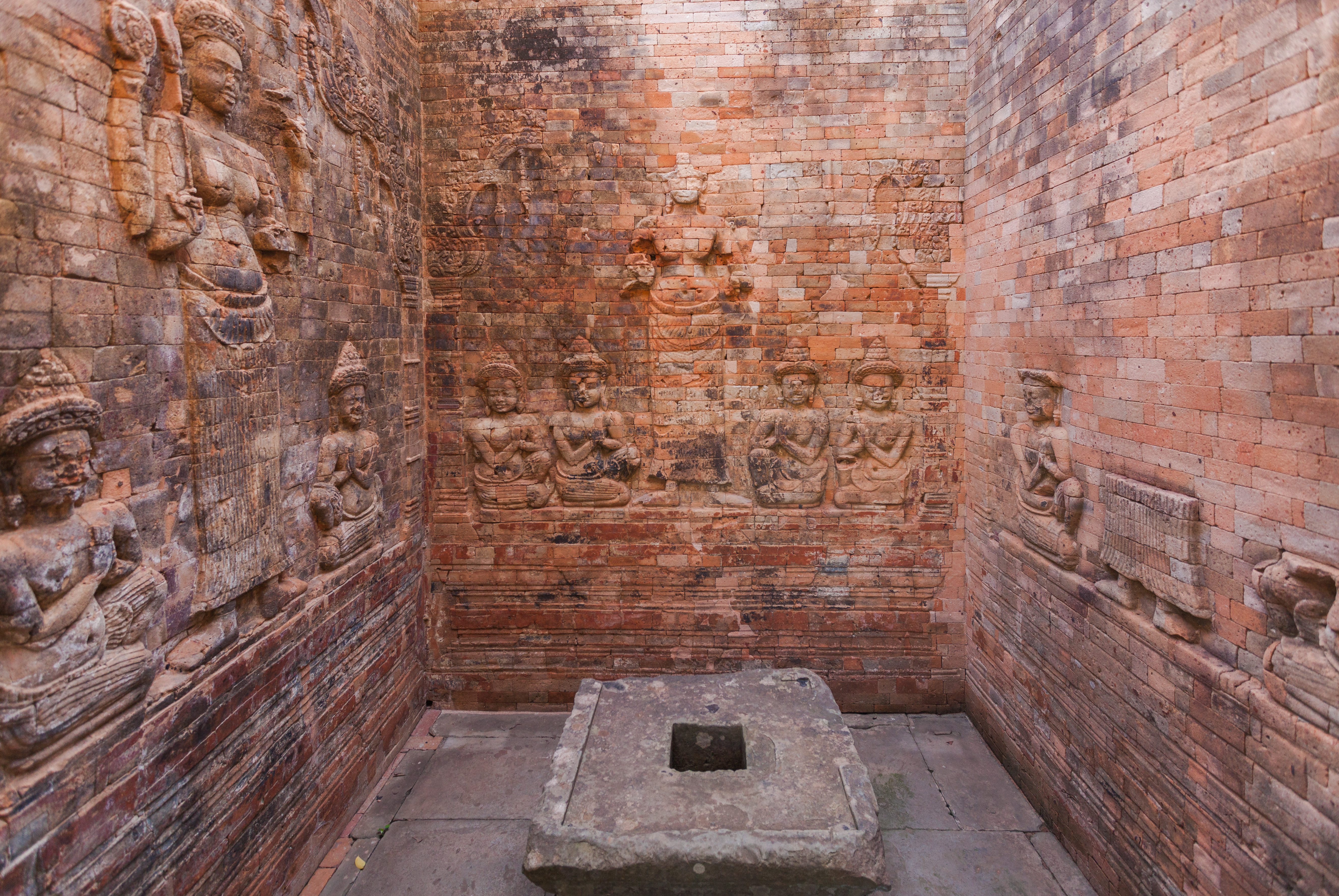 Prasat Kravan, Angkor, Cambodia